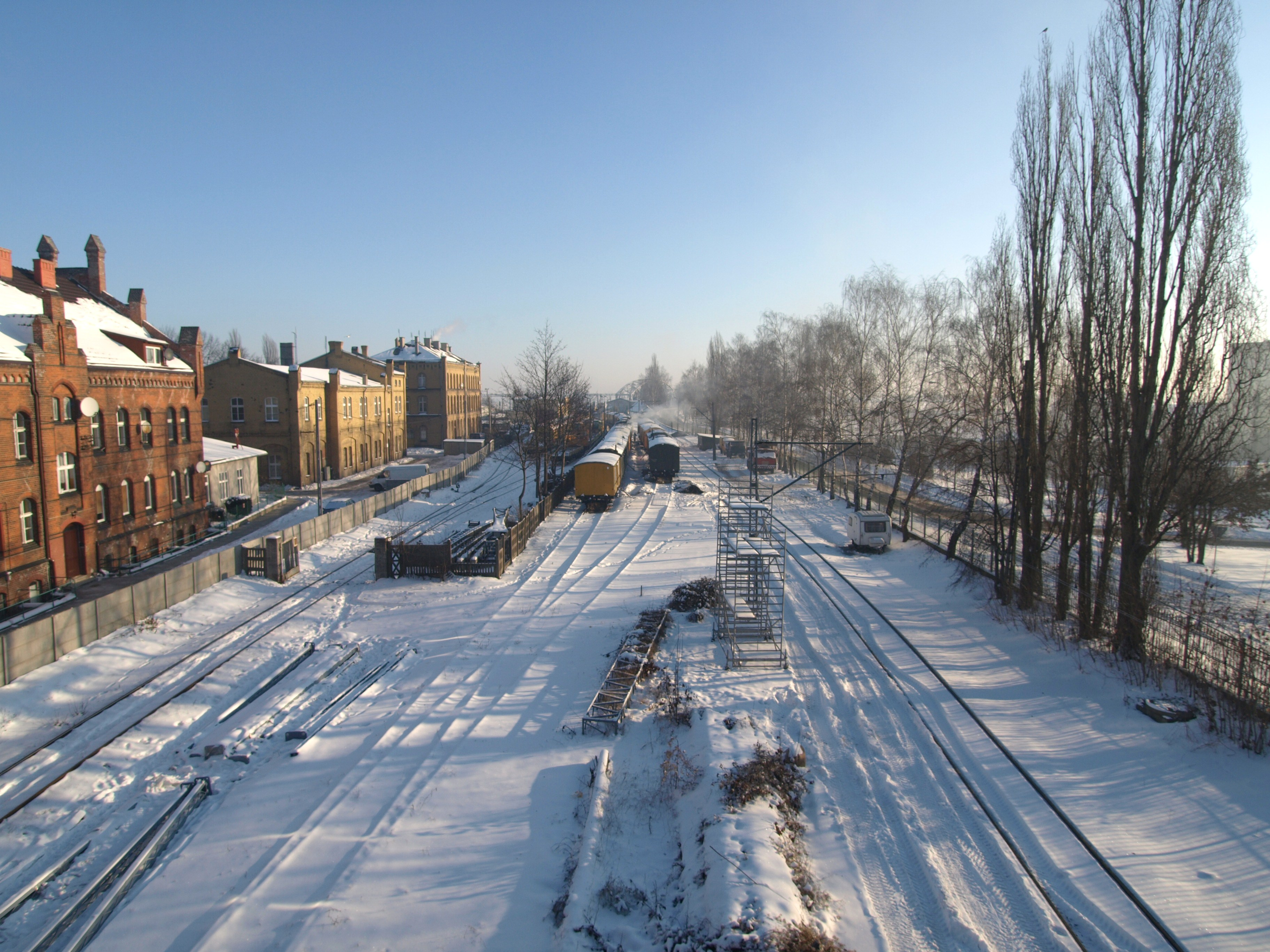 Tczew railway station.